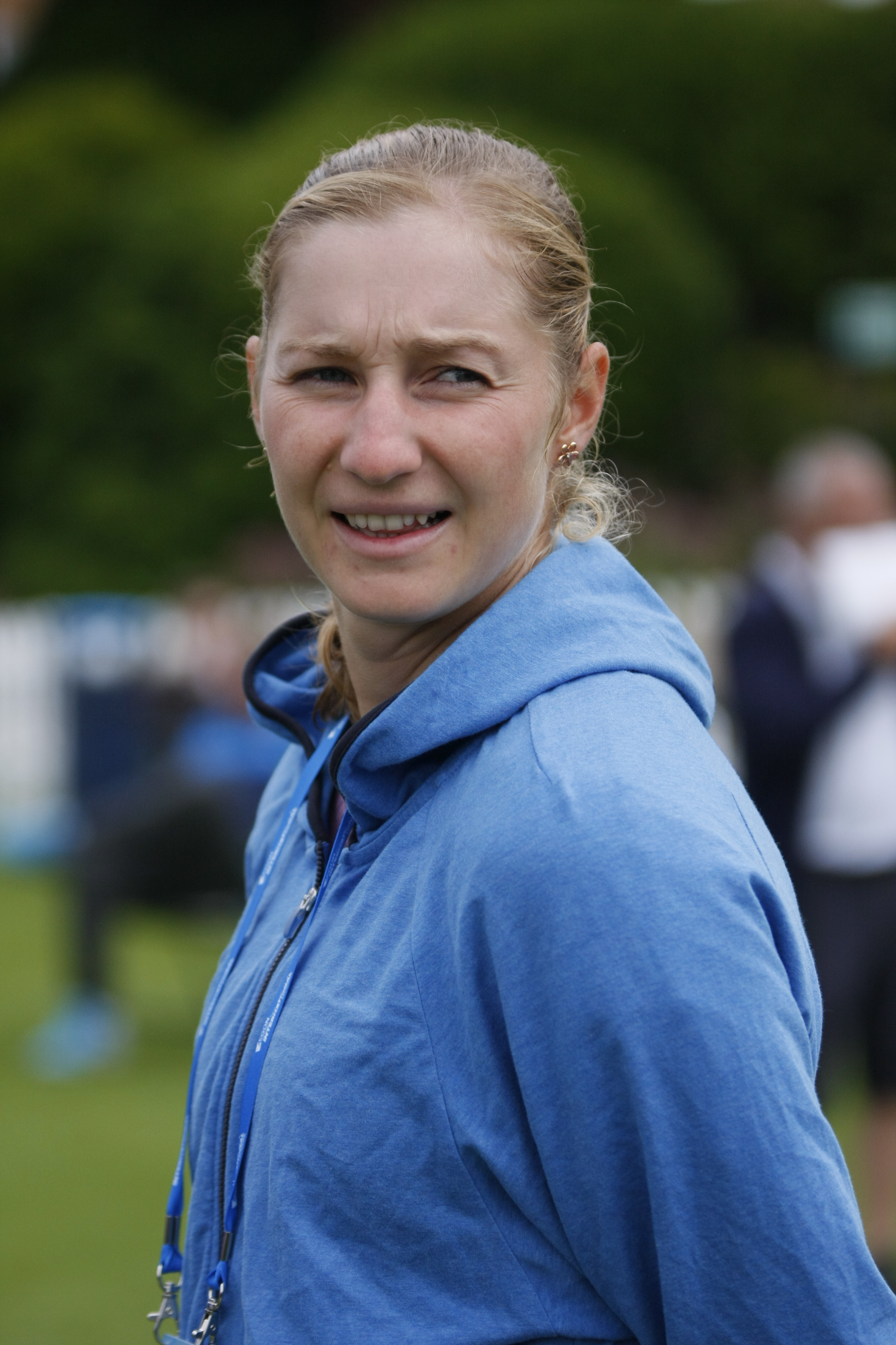 Aegon International Tennis, Devonshire Park, Eastbourne June 2015